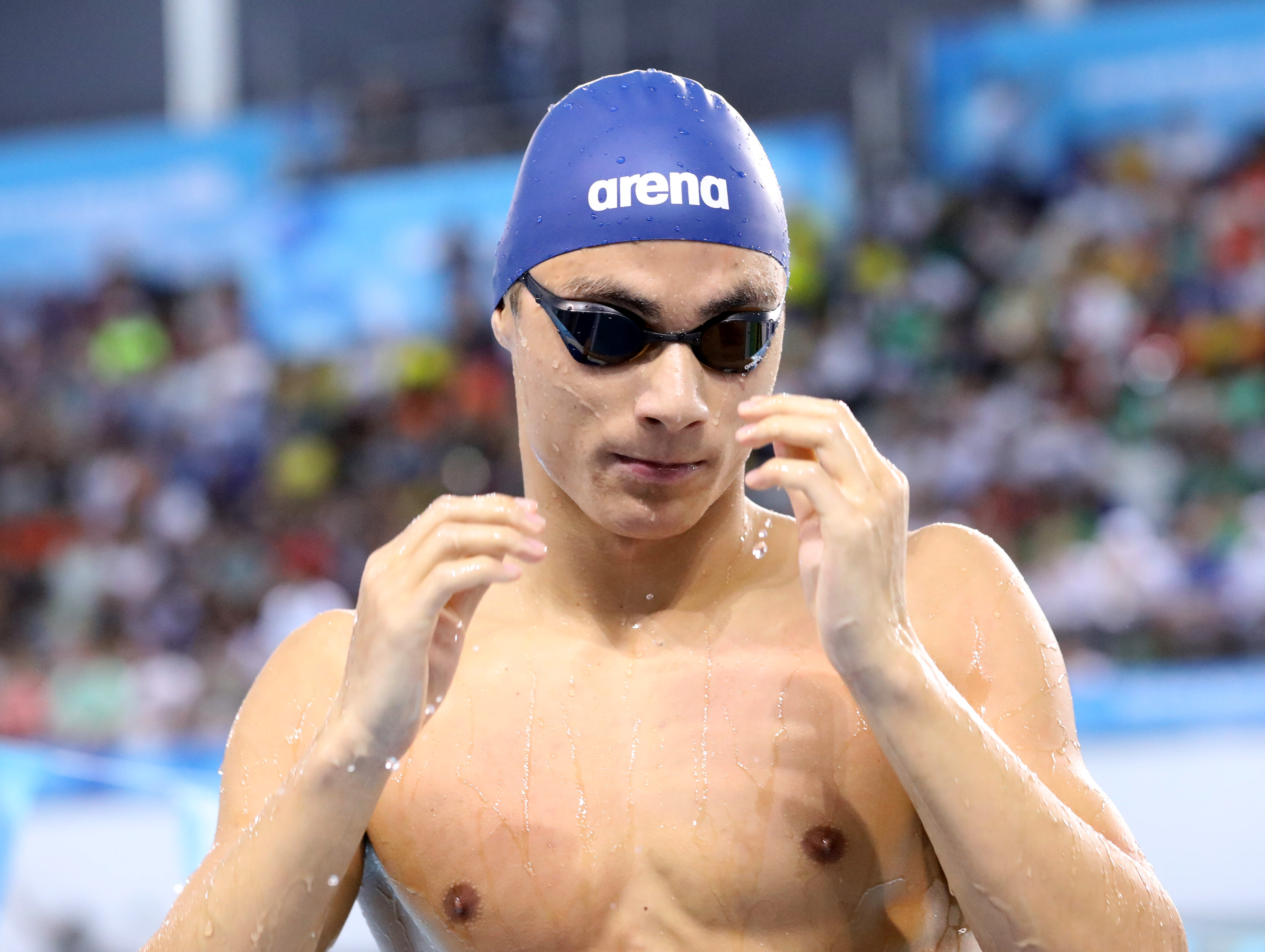 Boys' Swimming, 50 m Backstroke Final at the 2018 Summer Youth Olympics in Buenos Aires at the 10th October 2018